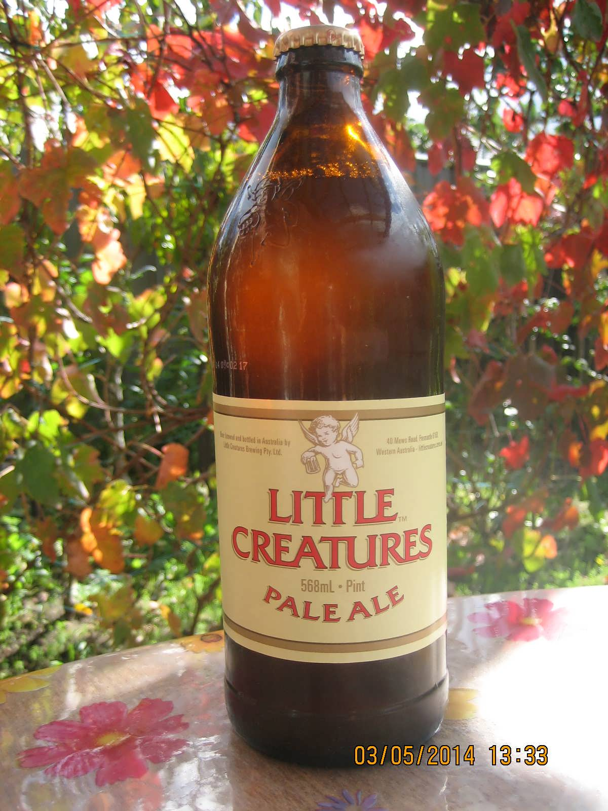 A bottle of Australian pale ale